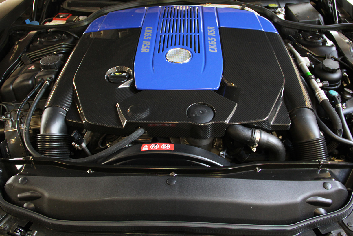 The Carlsson C25's engine bay